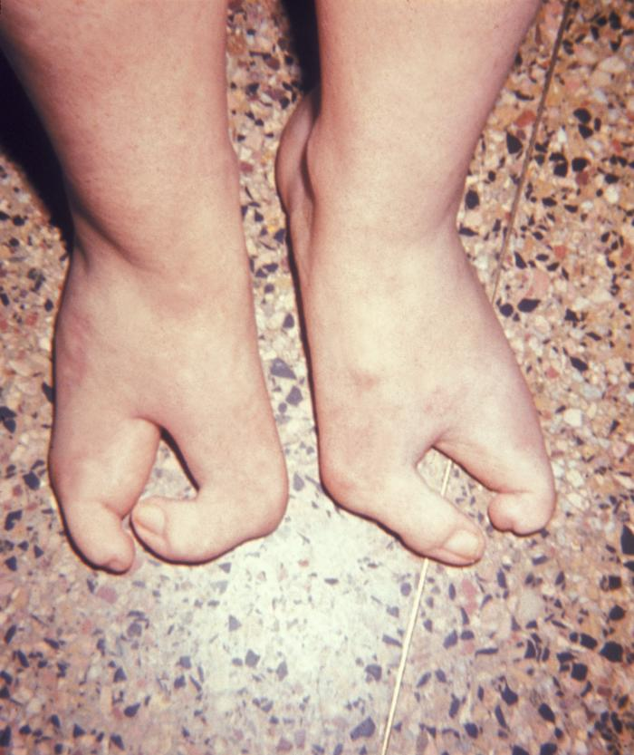 A photograph of a child with cleft feet, or "lobster claw" feet. Cleft foot, otherwise known as ”split”, "lobster claw", or partial adactyly is a rare inherited anomaly in which a single cleft extends proximally into the foot. It usually occurs in conjunction with clawing of the hand.